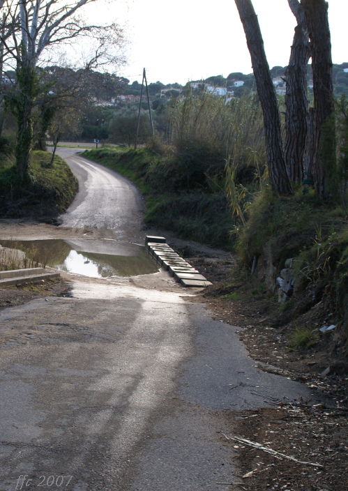 Gual a la Riera de Calonge - Ford on the river Riera de Calonge